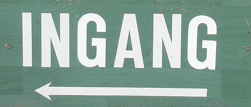 A thin arrow which is hard to recognise from a distance